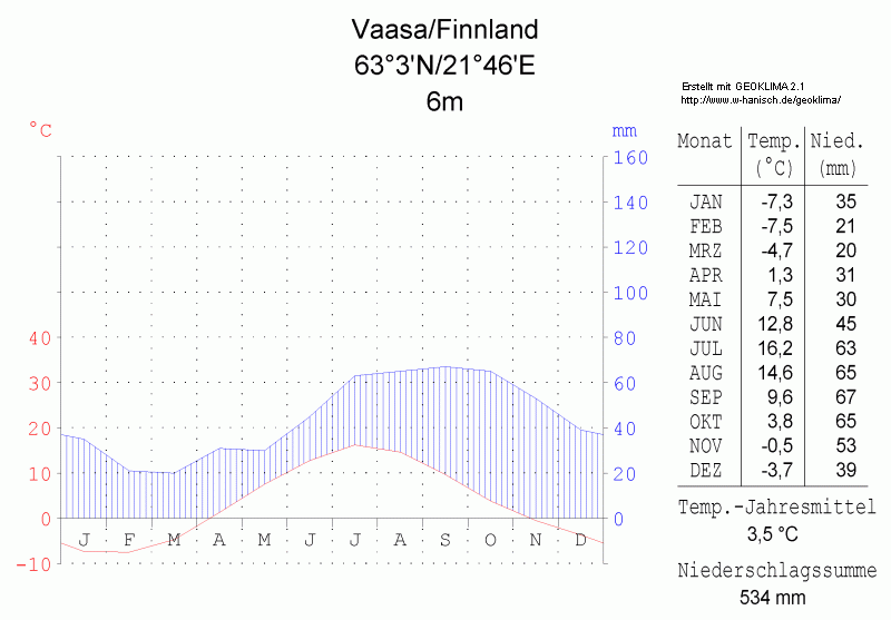 climate chart in the format by Walther and Lieth, metric, °Celsisus and millimeters, made with Geoklima 2.1